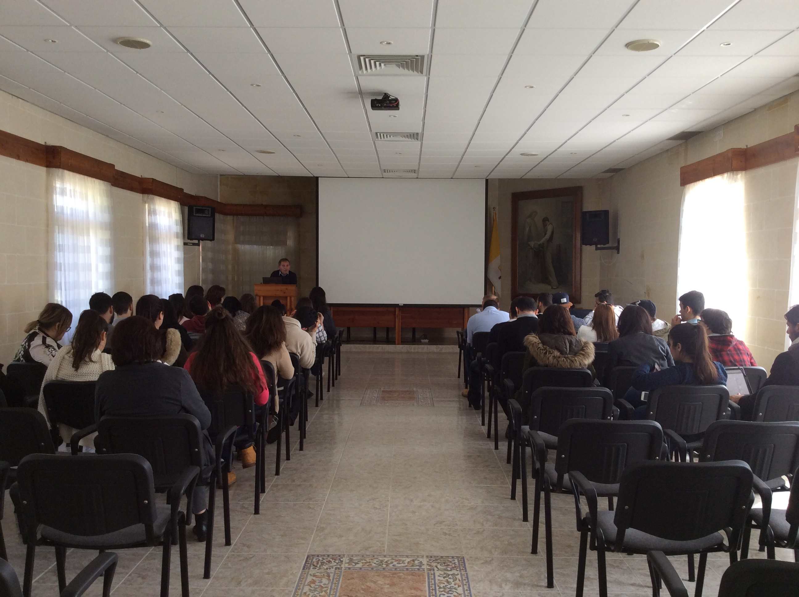 Manresa Retreat House and Church of Our Lady of Manresa This media is about Maltese cultural property with inventory number 00928.